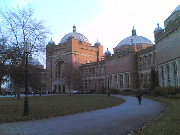 The Aston Webb Building in Chancellor's Court, University of Birmingham, in Birmingham, United Kingdom